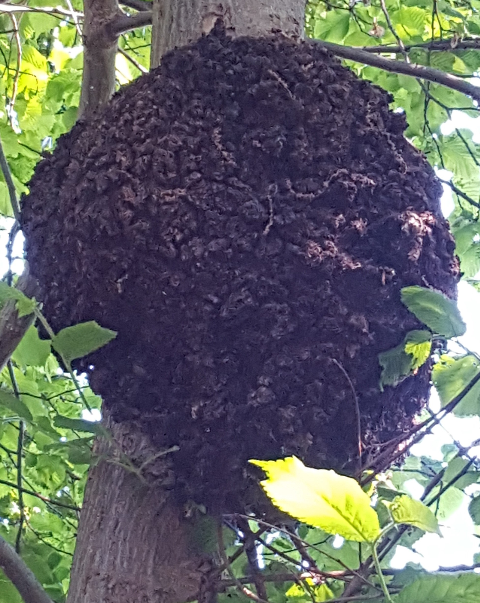 This is located in Downham Woodland Walk, which runs between Haddington Road and Oakridge Road in Bromley in London The failed colony (or abandoned beehive) remains after the bees that used it have Absconded. Absconding is defined as when the bees completely abandon their hive for whatever reason. [1]